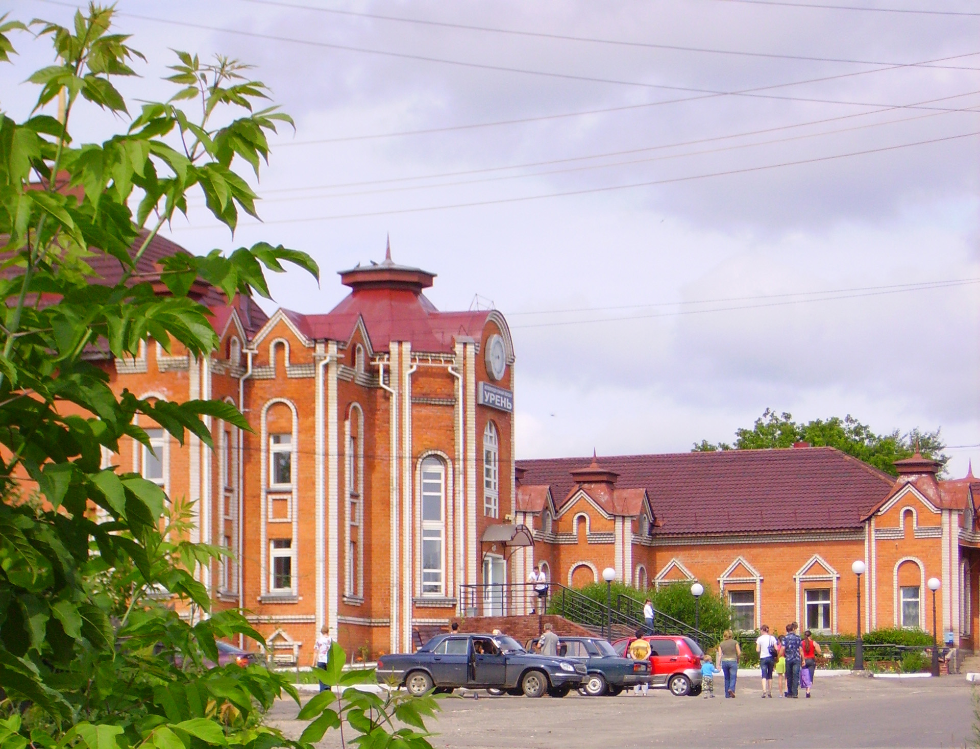 Railway Station